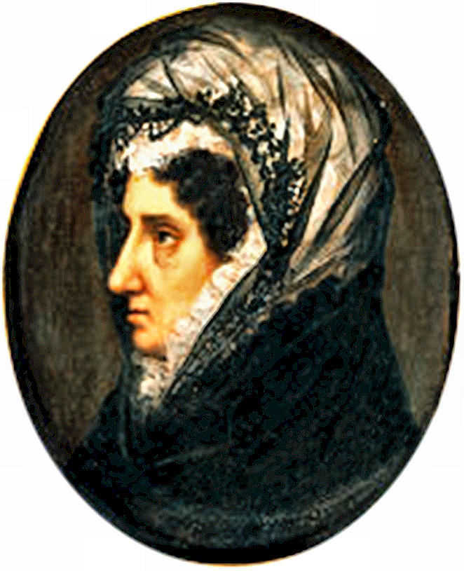 Portrait of Marquise Teresa Cavriani Peieri, oil on wood.